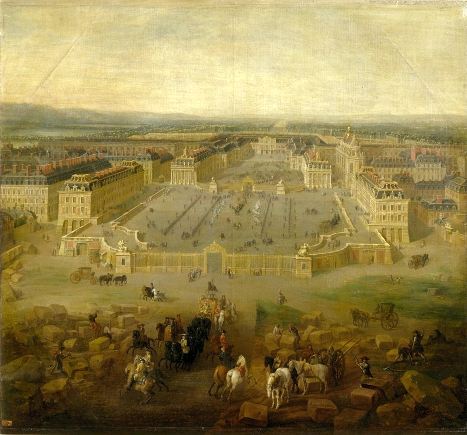 The Palace of Versailles under construction at the time of Louis XIV's death, by P. D. Martin (1722, Versailles Museum).